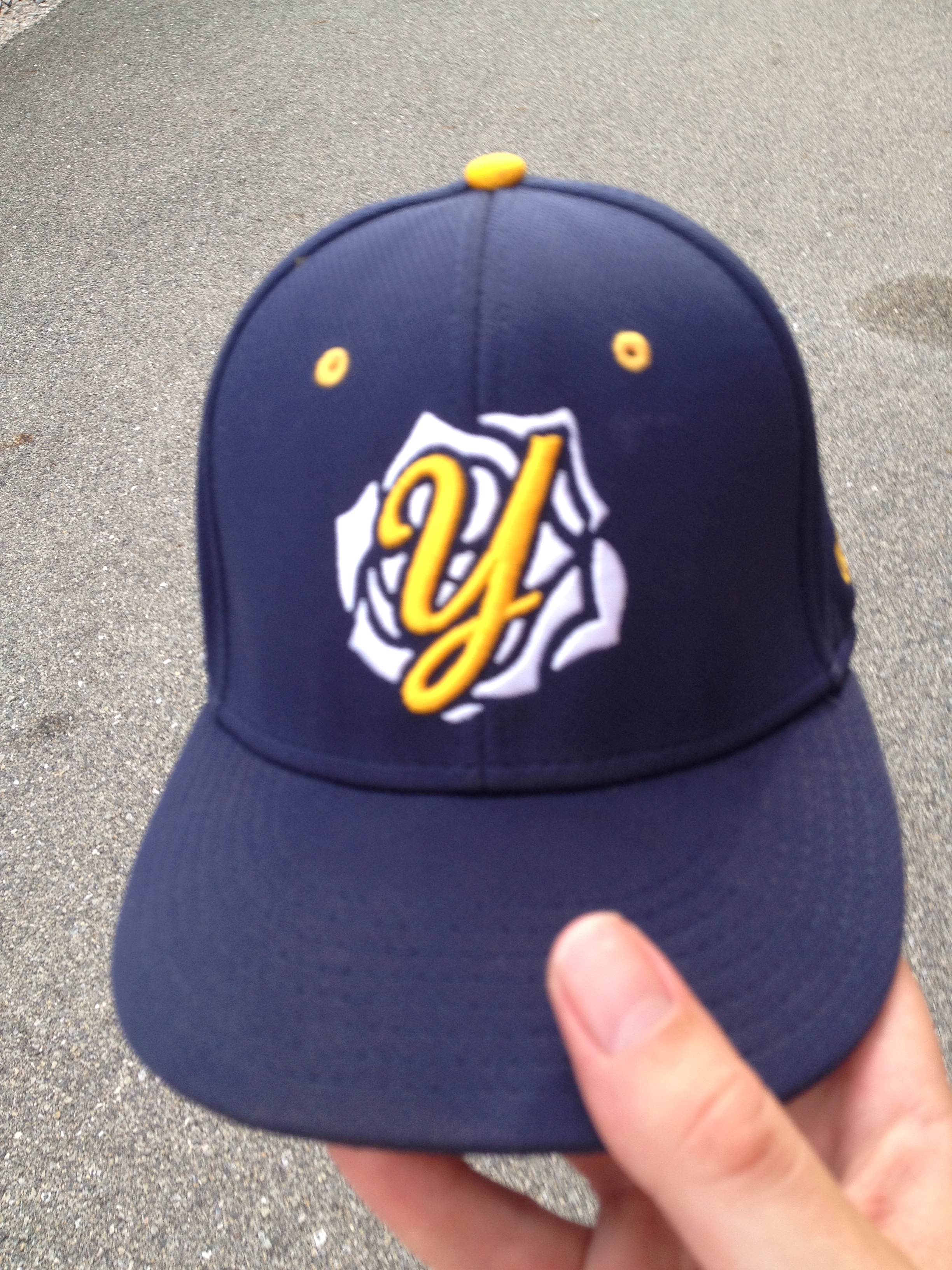 A 2016 York Revolution War of the Roses hat worn by Michael Rockett.